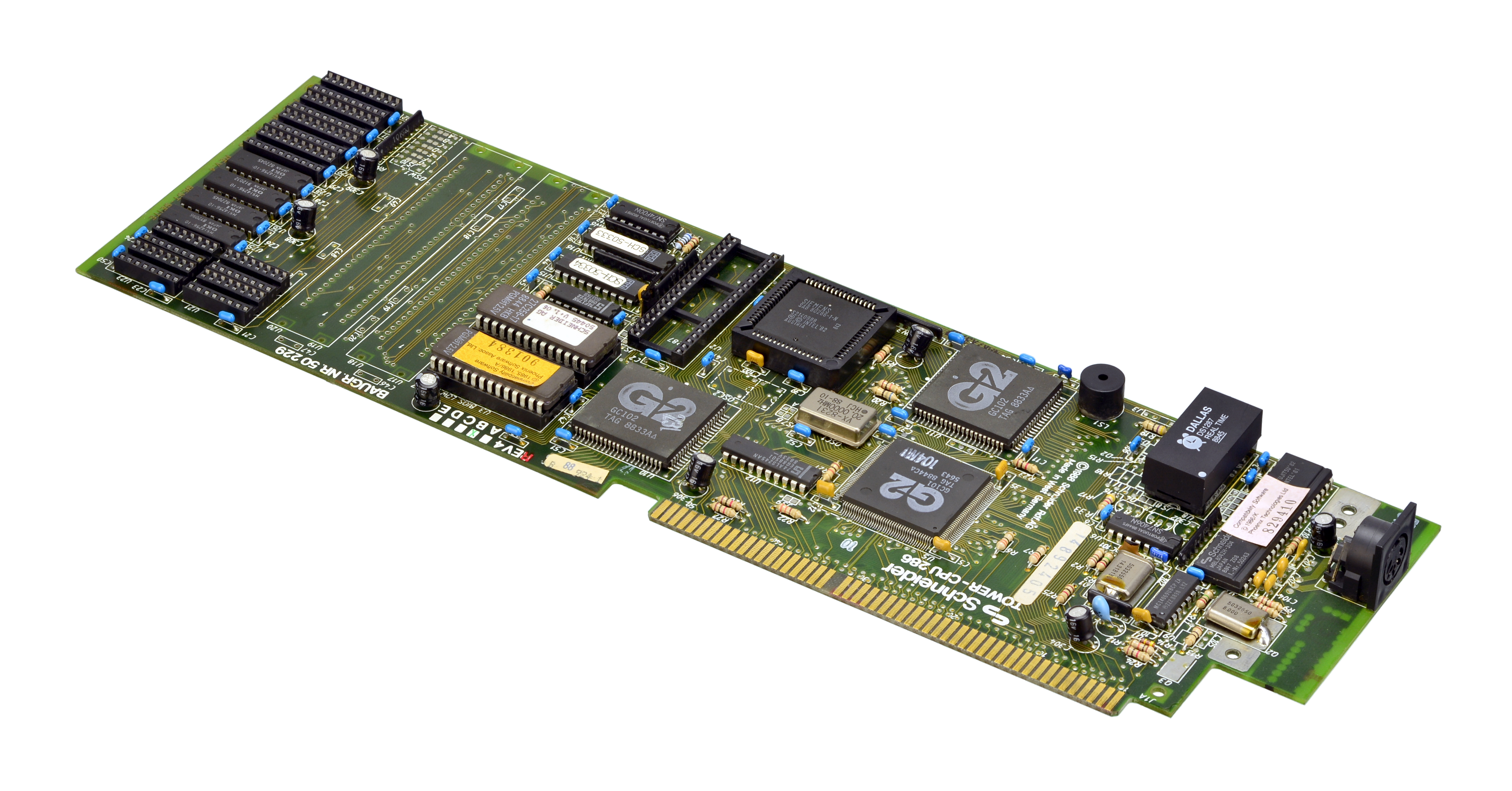 The Tower-CPU 286 board, REV4B, from the Tower AT System 220 personal computer by Schneider Computer Division released in 1988. It uses the Siemens SAB 80286-1-N processor, a Dallas Real-time clock, and houses the keyboard connector.